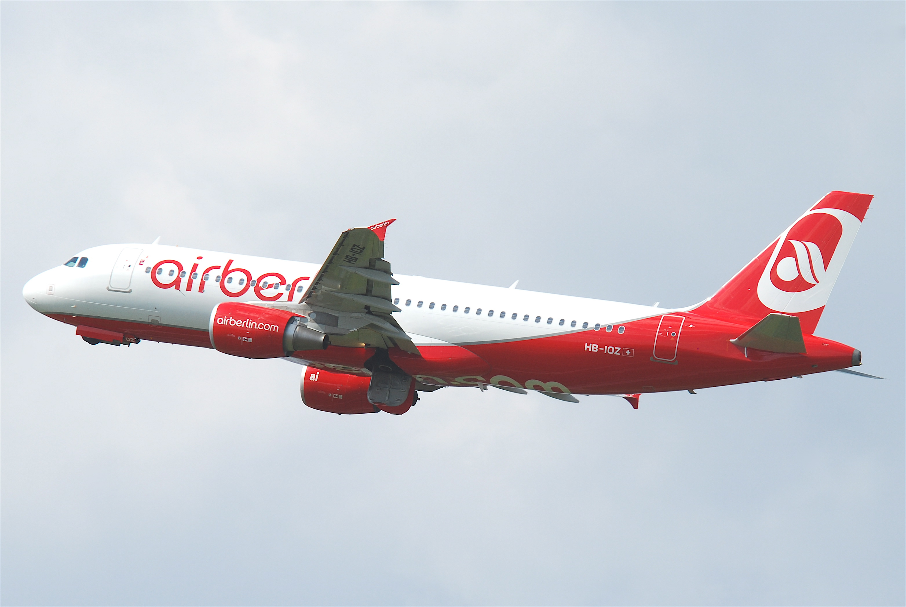 Air Berlin Airbus A320-214; HB-IOZ@ZRH;02.07.2011/602cp